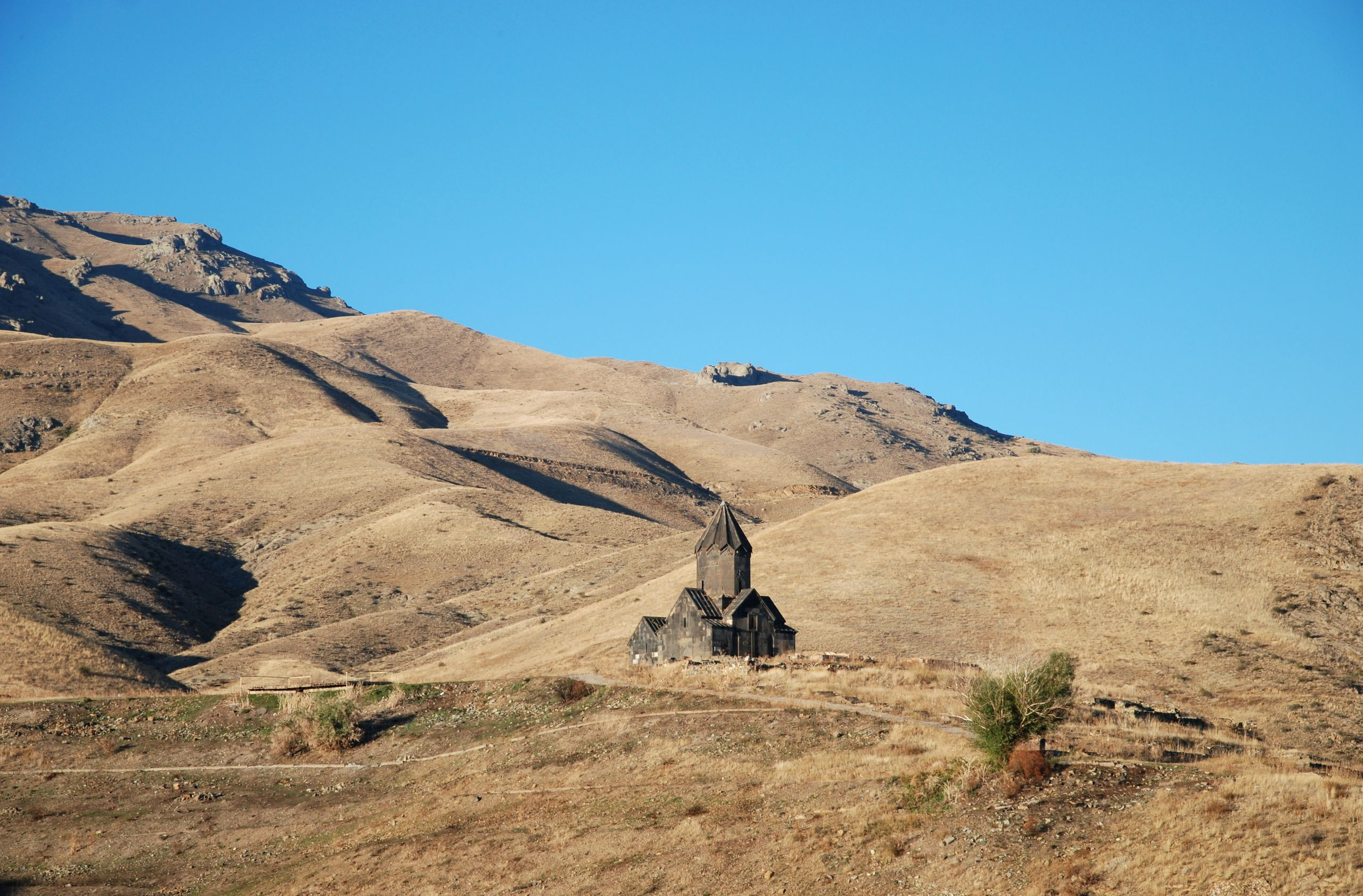 Tanahat from southwest